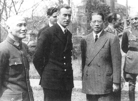 1943 TV Soong, Chiang Kai-shek and Lord Mountbattan. 1943年10月，宋子文、蔣介石在重慶與來訪的英國東南亞戰區統帥蒙巴頓合影